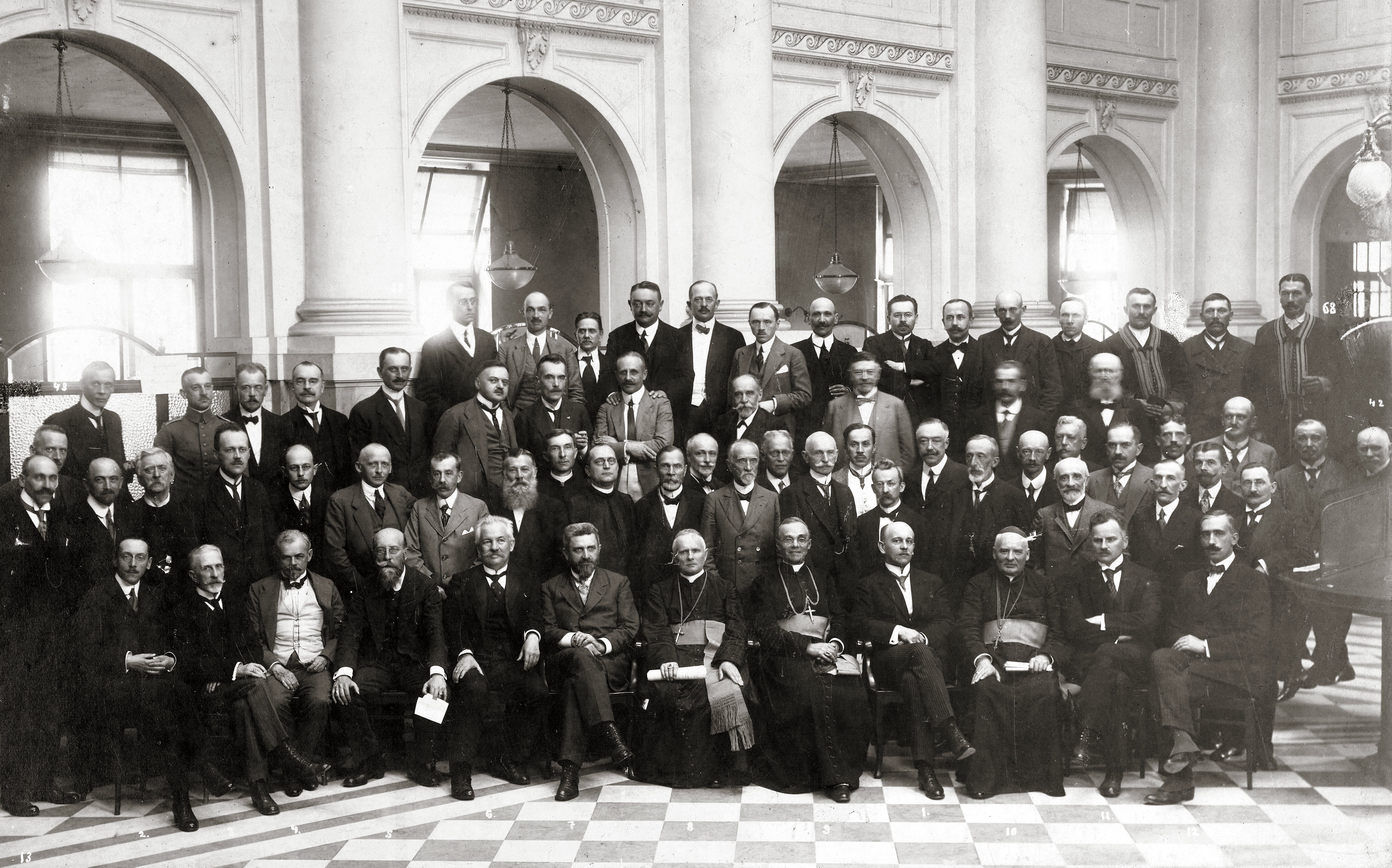 Members of the Council of State of Kingdom of Poland 1918